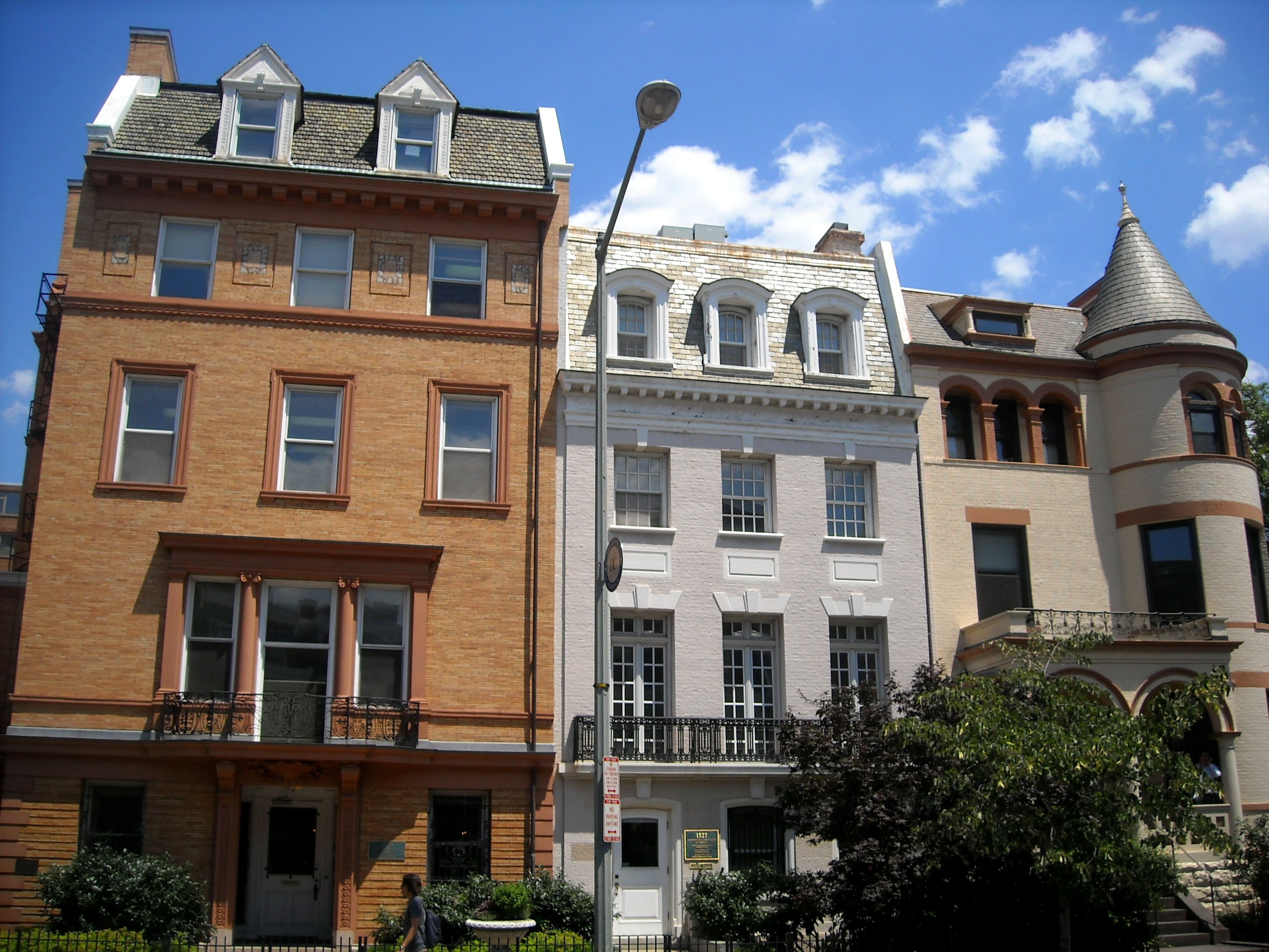 The Mathematical Association of America headquarters (since 1979) located at 1529 18th Street, NW (pictured, far left) in the Dupont Circle neighborhood of Washington, D.C. The five-story, Classical Revival building was constructed in 1903. It is a contributing property to the Dupont Circle Historic District, with a 2009 property value of $6,733,700. Notable owners of the building have included the Cuban government (Office of Legation from 1915–1919; residence of Carlos Manuel de Céspedes y Quesada while serving as Cuban Minister Plenipotentiary), Charles Evans Hughes (residence from 1921–1925 while serving as U.S. Secretary of State), Frederic M. Sackett (residence from 1928–1929 while serving in the U.S. Senate), the Association of Military Colleges and Schools of the United States (headquarters during the 1950s), and the Association of the United States Army (headquarters from the 1950s–1970s).